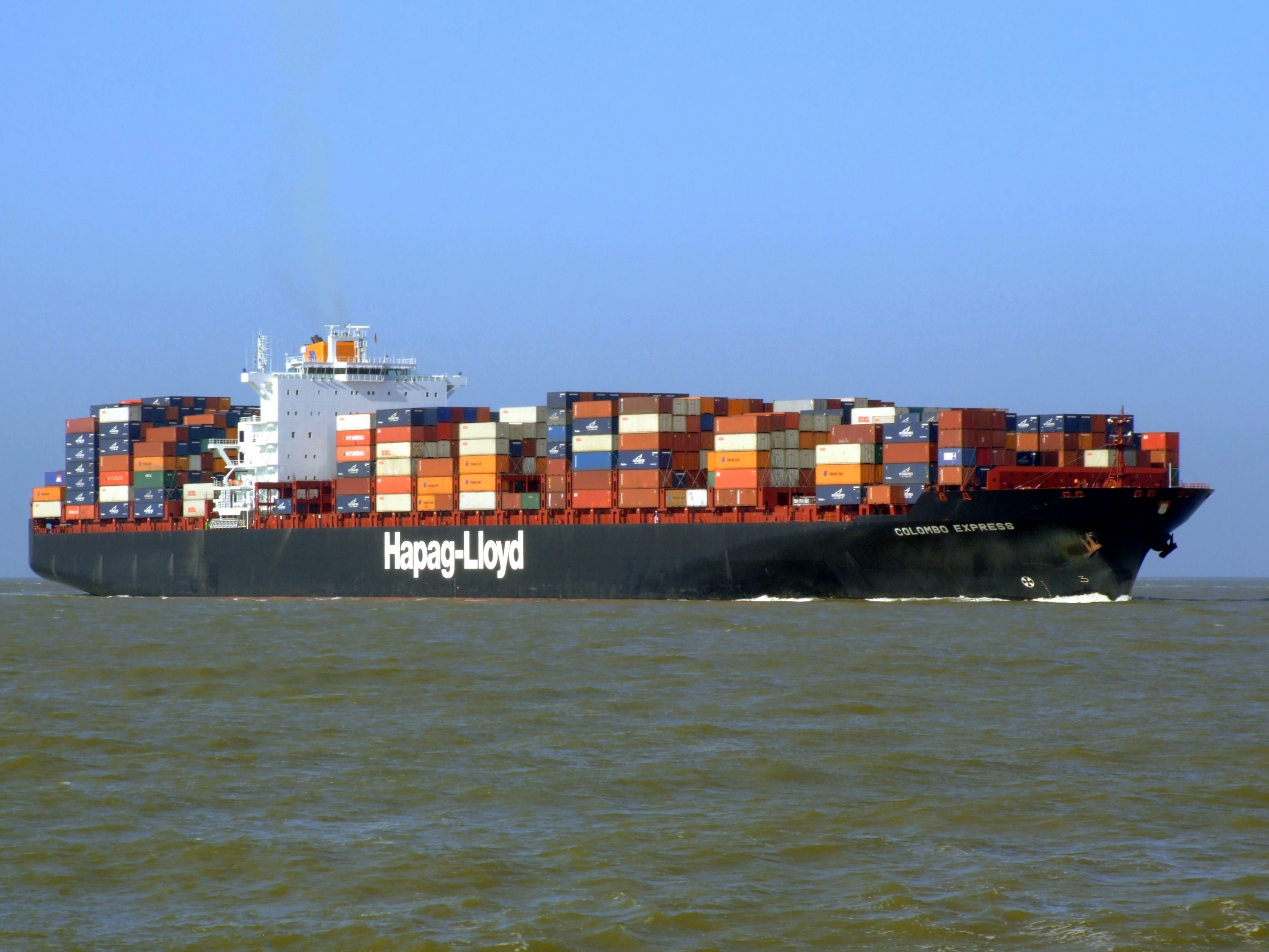 Colombo Express IMO 9295244 approaching Port of Rotterdam, Holland 08-Mar-2007.